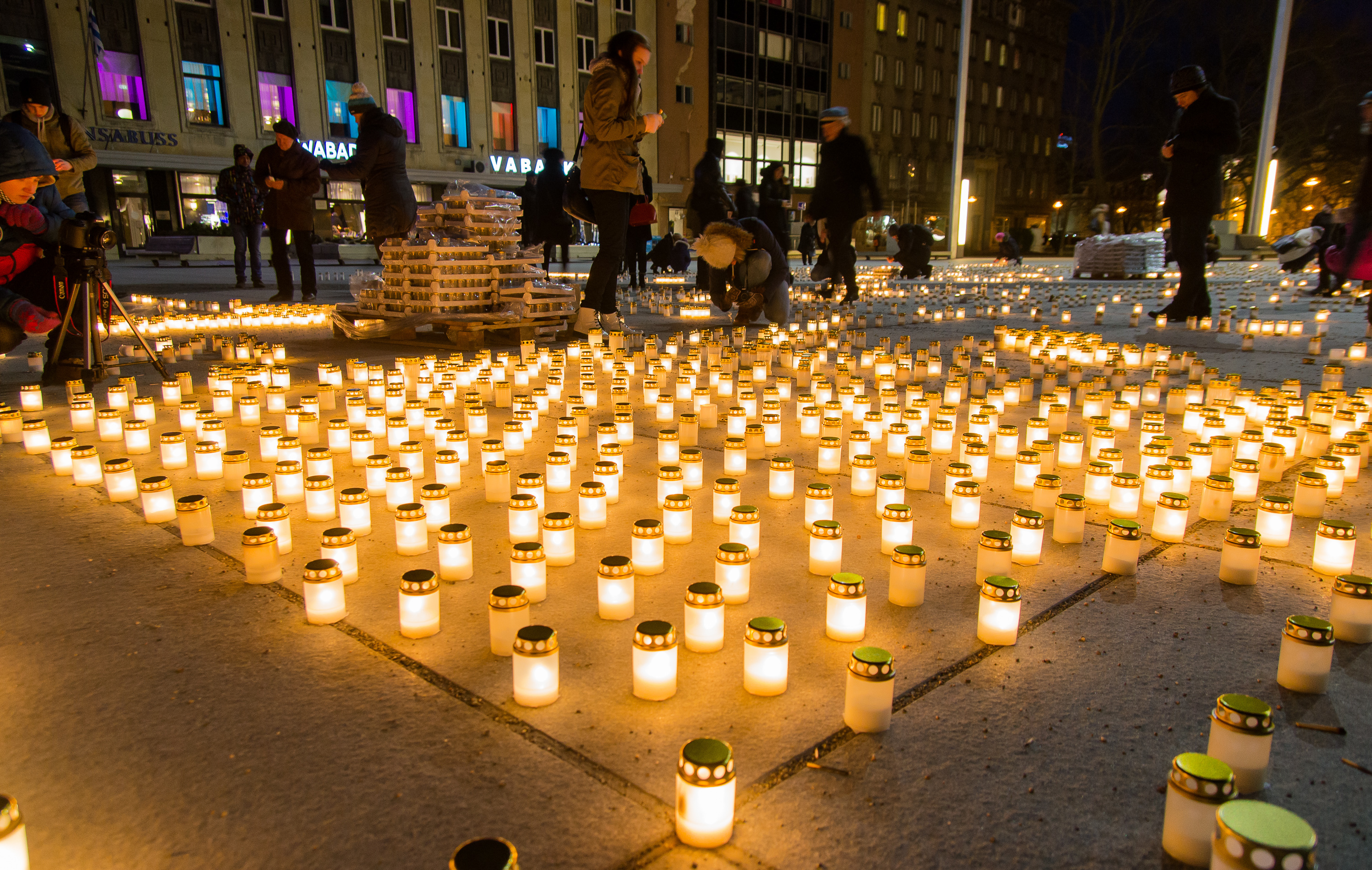 Candles on Freedom Square in Tallinn, Estonia to commemorate the March deportations.